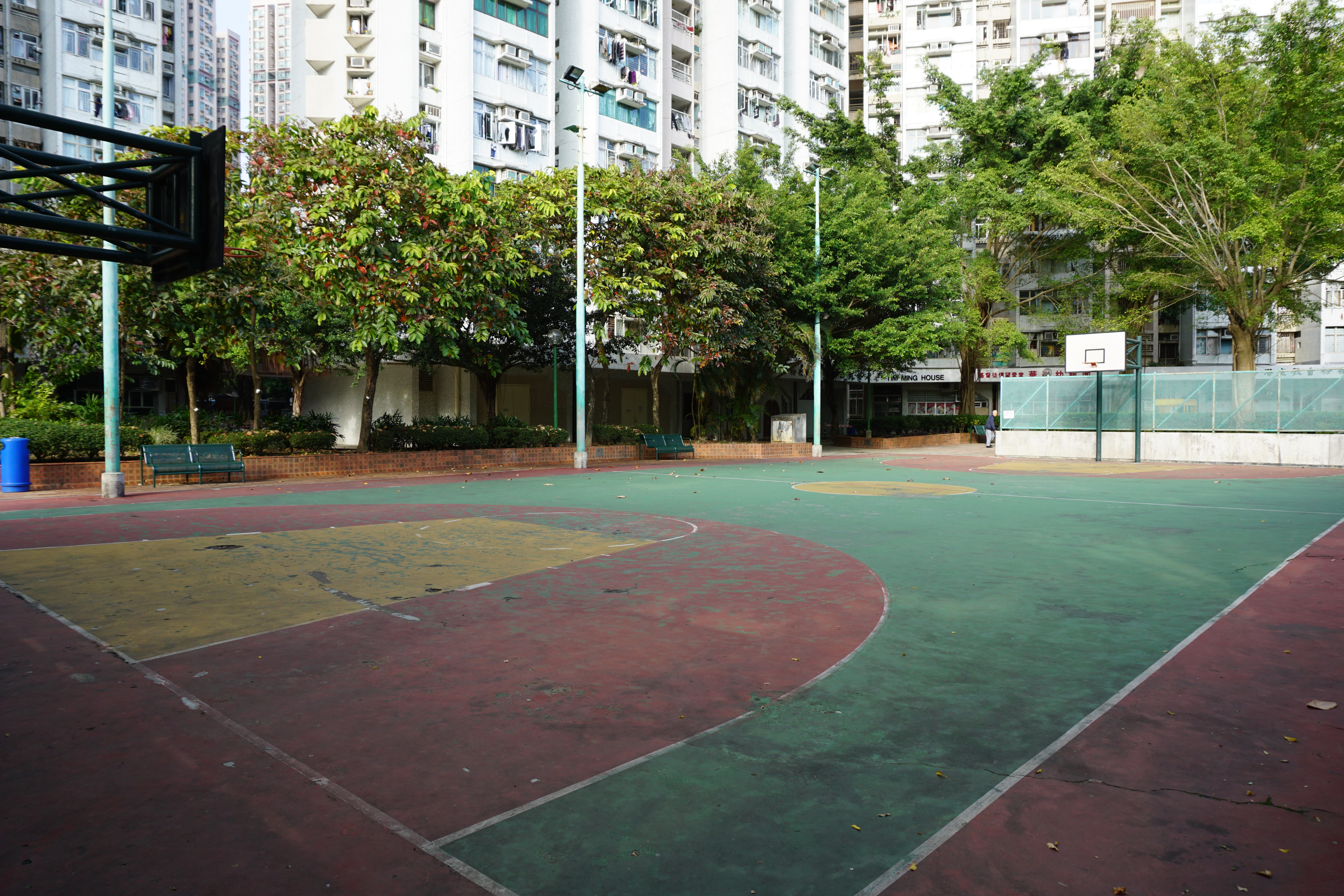 Wah Ming Estate in Fanling, Hong Kong.